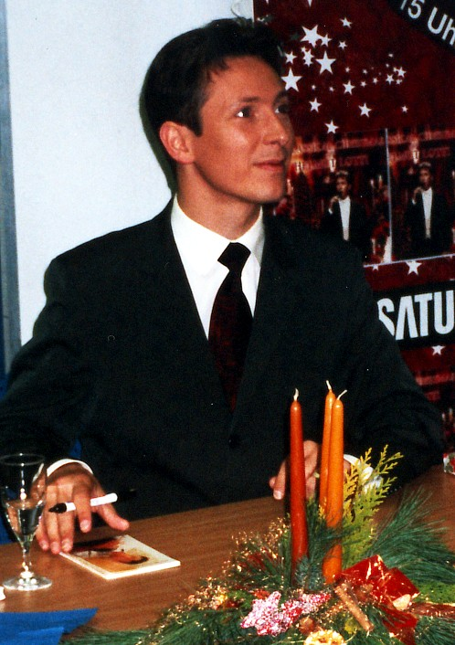 Helmut Lotti in Dresden, 2001.